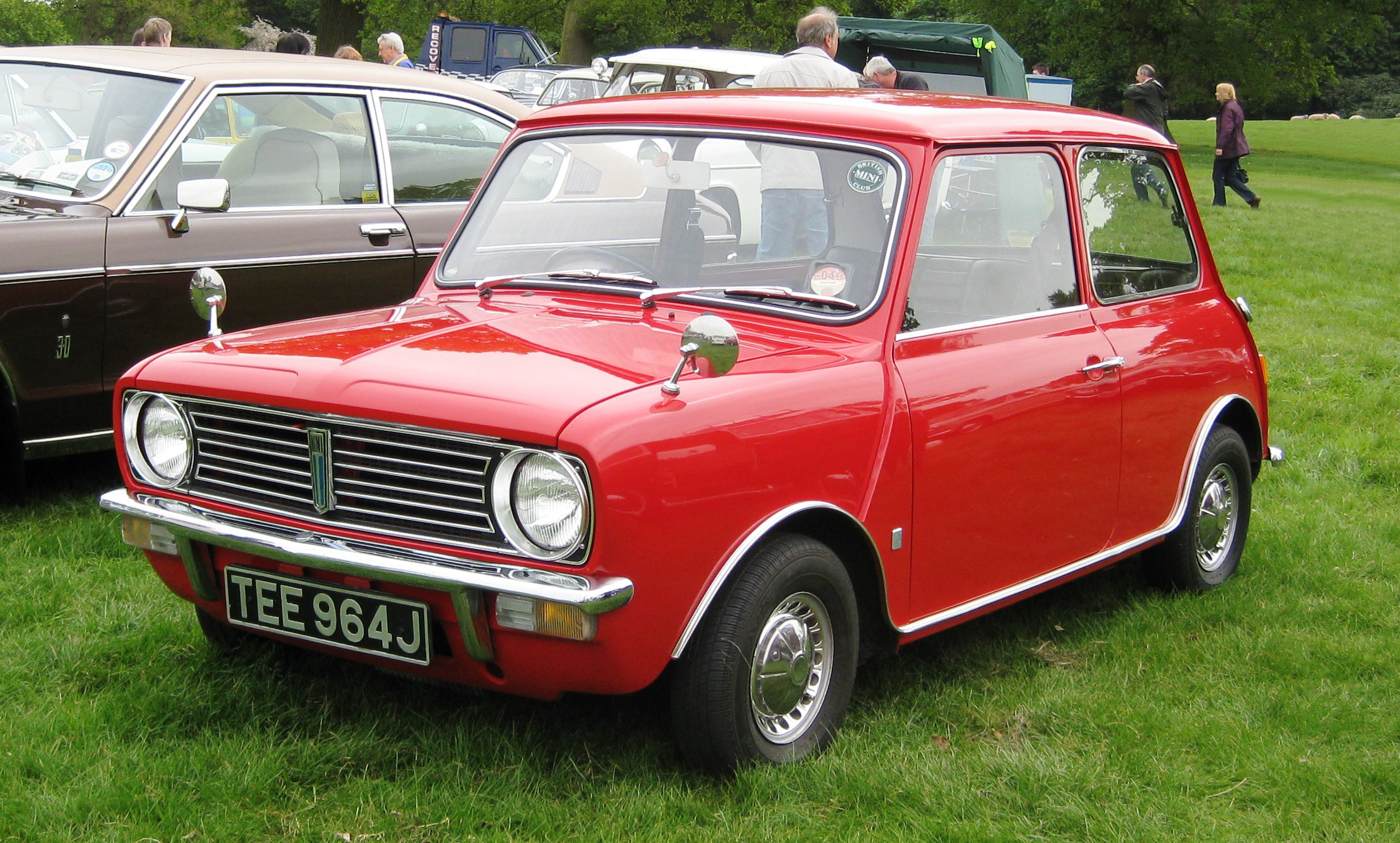 Mini Clubman at Weston Park Transport Show